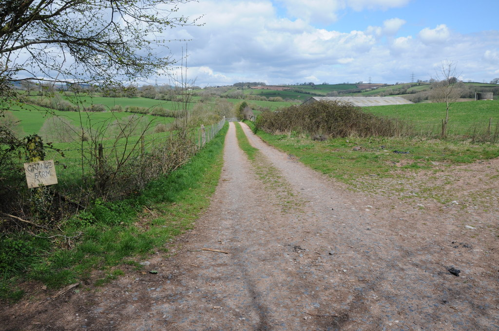 Grange Farm, Newcastle, Monmouthshire - the entrance gate